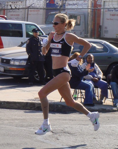 Paula Radcliffe, winner of the 2007 New York City Marathon, photographed at mile 14.